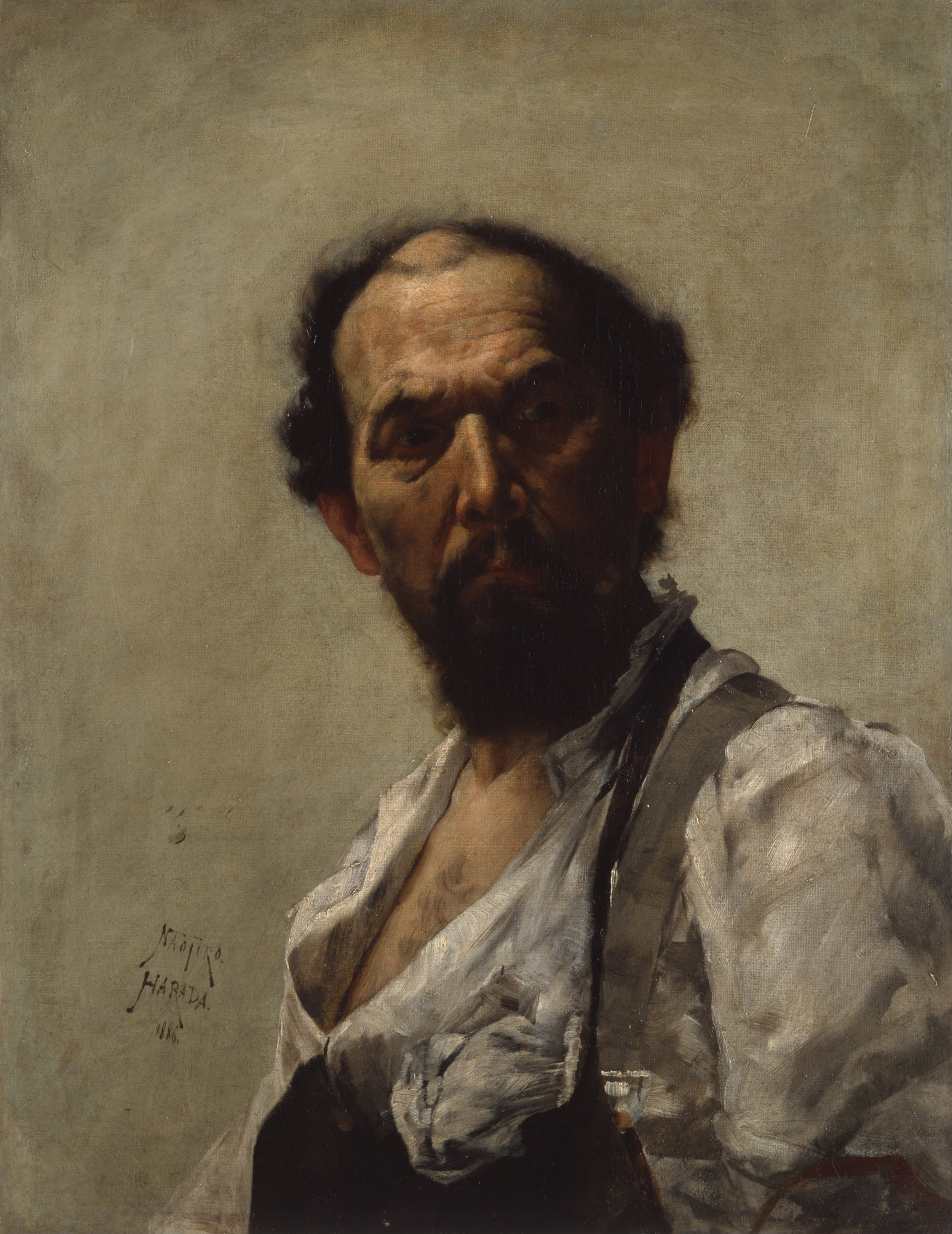 Harada Naojirō "Shoemaker"